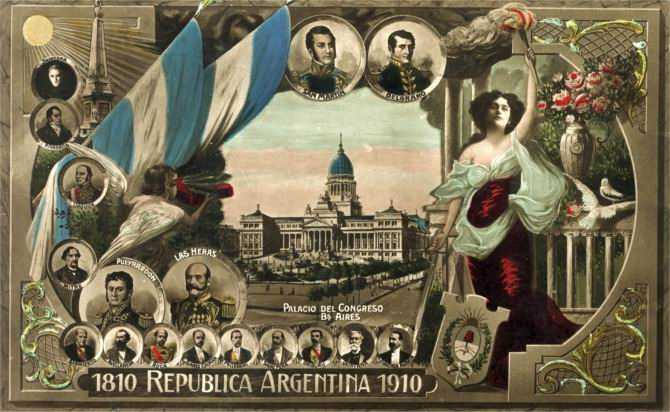 Postcard that paid tribute to the 100th. anniversary of the May Revolution in Argentina. Some of the most notable personalities of the nation's politician life are displayed on the image, such as Cornelio Saavedra, Bernardino Rivadavia and Justo J. de Urquiza, Bartolomé Mitre, Juan Martín de Pueyrredón and Gregorio de Las Heras (left); José de San Martín and Manuel Belgrano (upright)